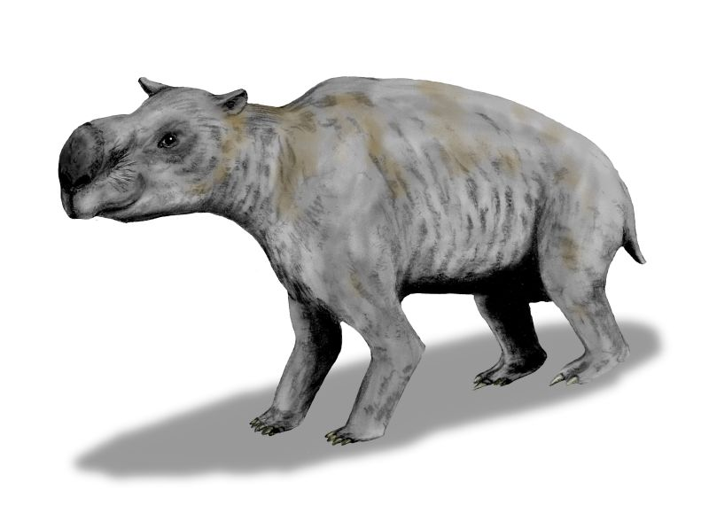 Diprotodon optatum, a large marsupial from the Pleistocene of Australia, pencil drawing, digital coloring